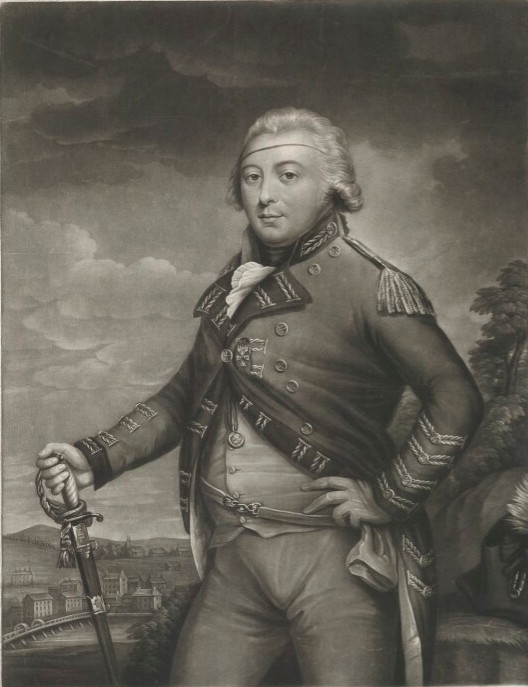 Portrait of Sardu: Sir Henry Johnson, 1st Baronet (1748–1835), Irish officer of the British Army.